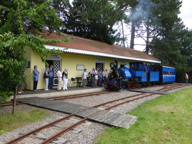 The Darjeeling Himalayan Railway - Ringkingpong Station